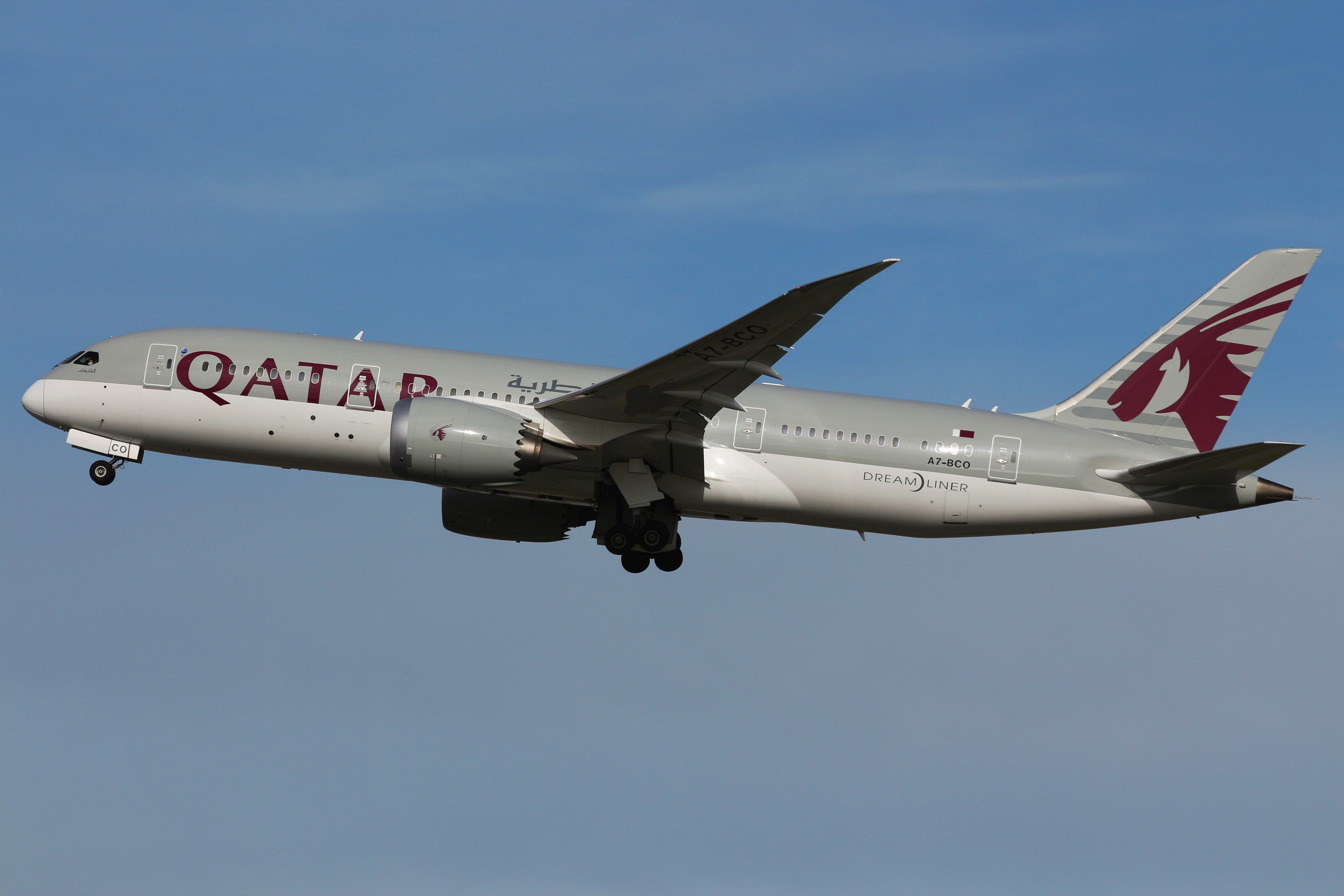 Taken at Rome Fiumicino Airport